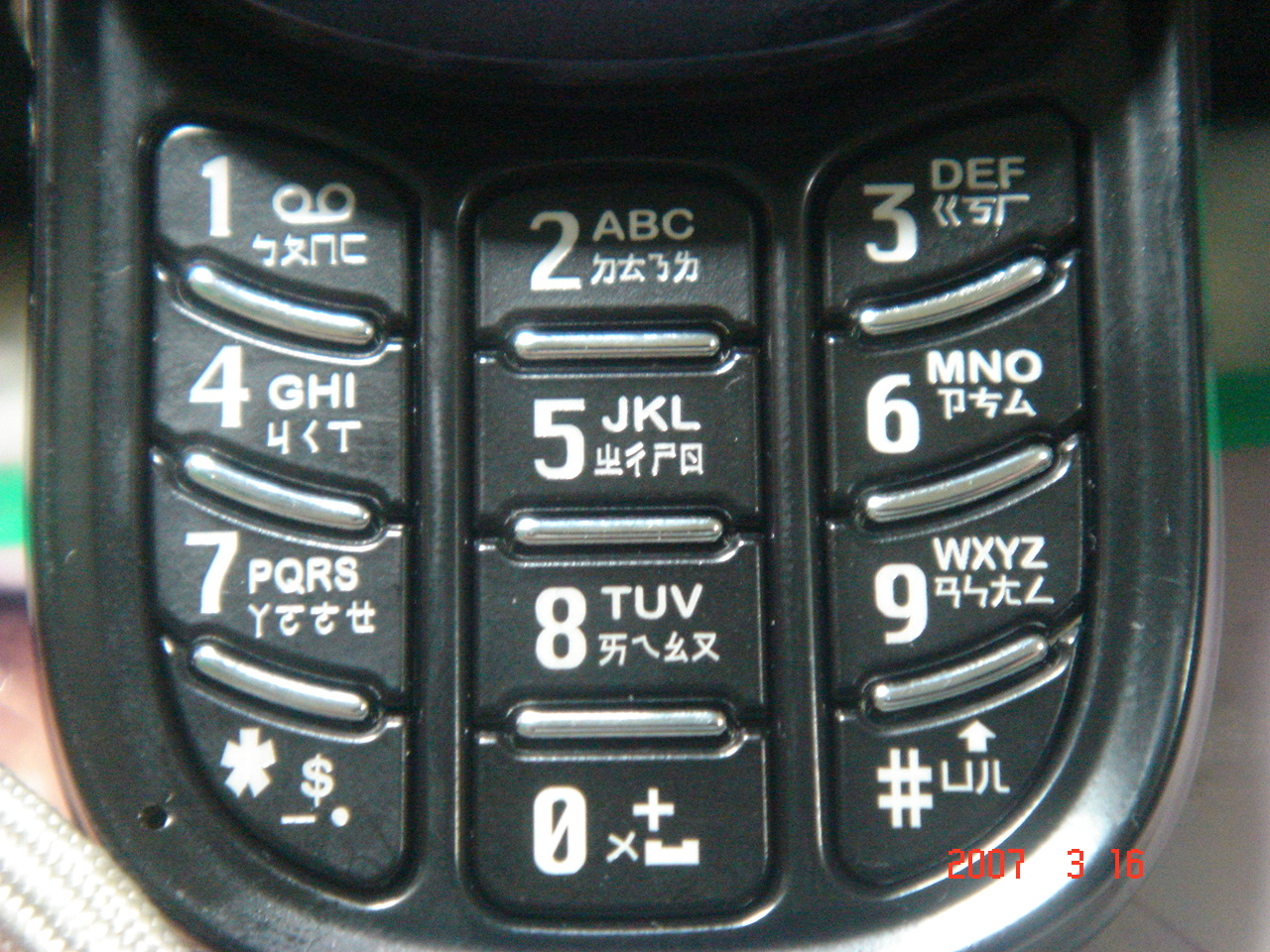 Detail of the keypad with Zhuyin on Taiwanese cell phone; I took the picture myself with my camera.